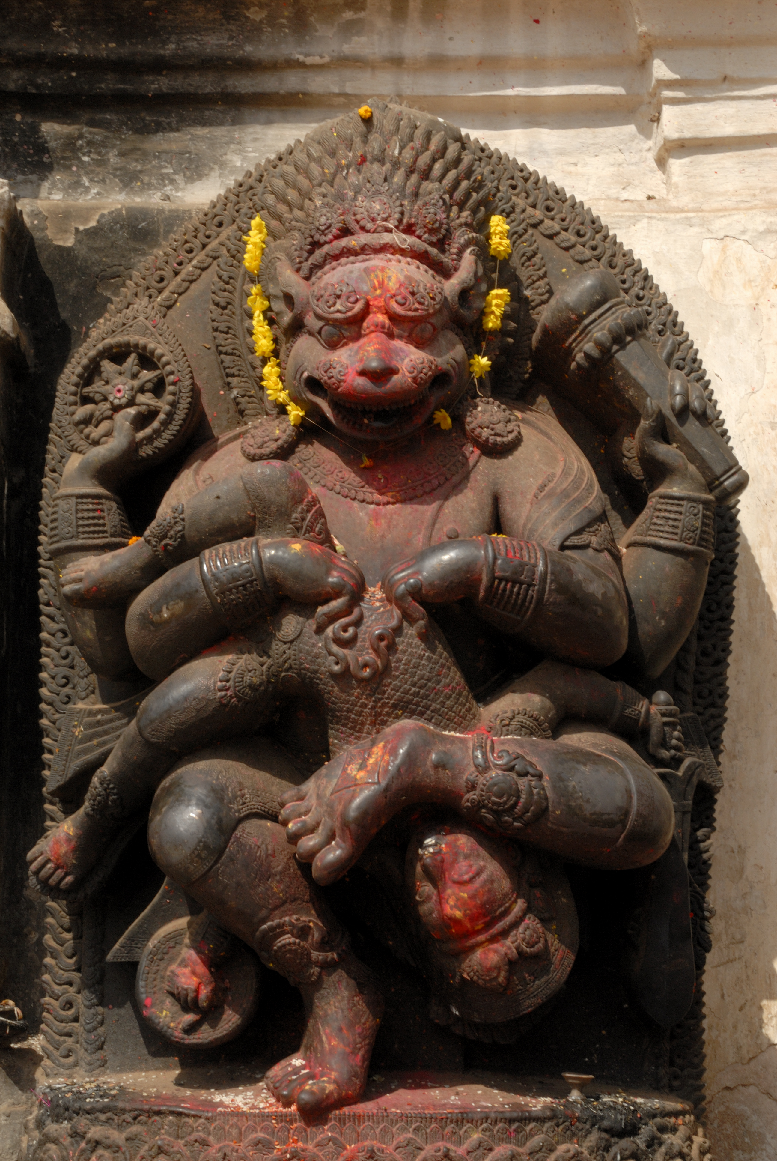 Narasimha (erected 1697 by Bhuptindramalla) Front of the palace on the westside of Sundhoka Bhaktapur